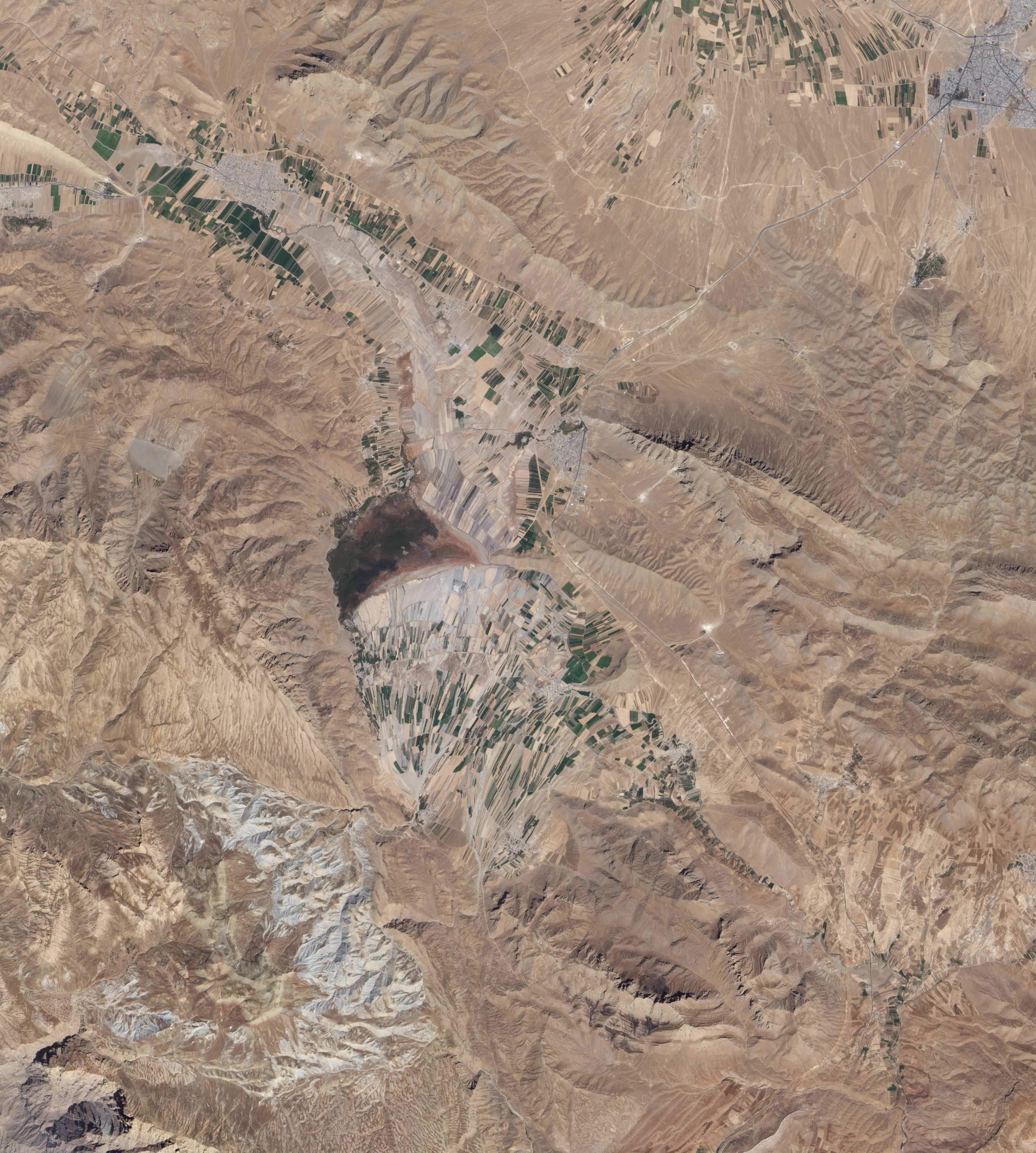 Natural-colour image of an area south of Esfahan, including the town of Gandoman. Northwest and south of the city, irrigated fields make elongated rectangles of green, interspersed with earth-toned fallow fields. Crop-lands and settlements are mostly confined to flat areas. Surrounding the farmed areas are rugged hills and valleys, mostly devoid of vegetation. East north-east of Gandoman, a long ridge casts shadows to the north. It is one of several such ridges visible in this image, and east of the town, the ridges primarily run parallel to each other. In the west, ridge-lines appear more random, extending in multiple directions. Here in the foothills of the Zagros Mountains, elevations are roughly comparable to those of Denver, Colorado, at the base of the foothills of the Rocky Mountains. Near the centre of the image, what might look like a semicircular ridge casting a long, uneven shadow is actually a combination of flat, farmed land bordered on the north by an expanse of natural vegetation. Although water is scarce in this part of Iran, small lakes and wetlands occur sporadically throughout the region.